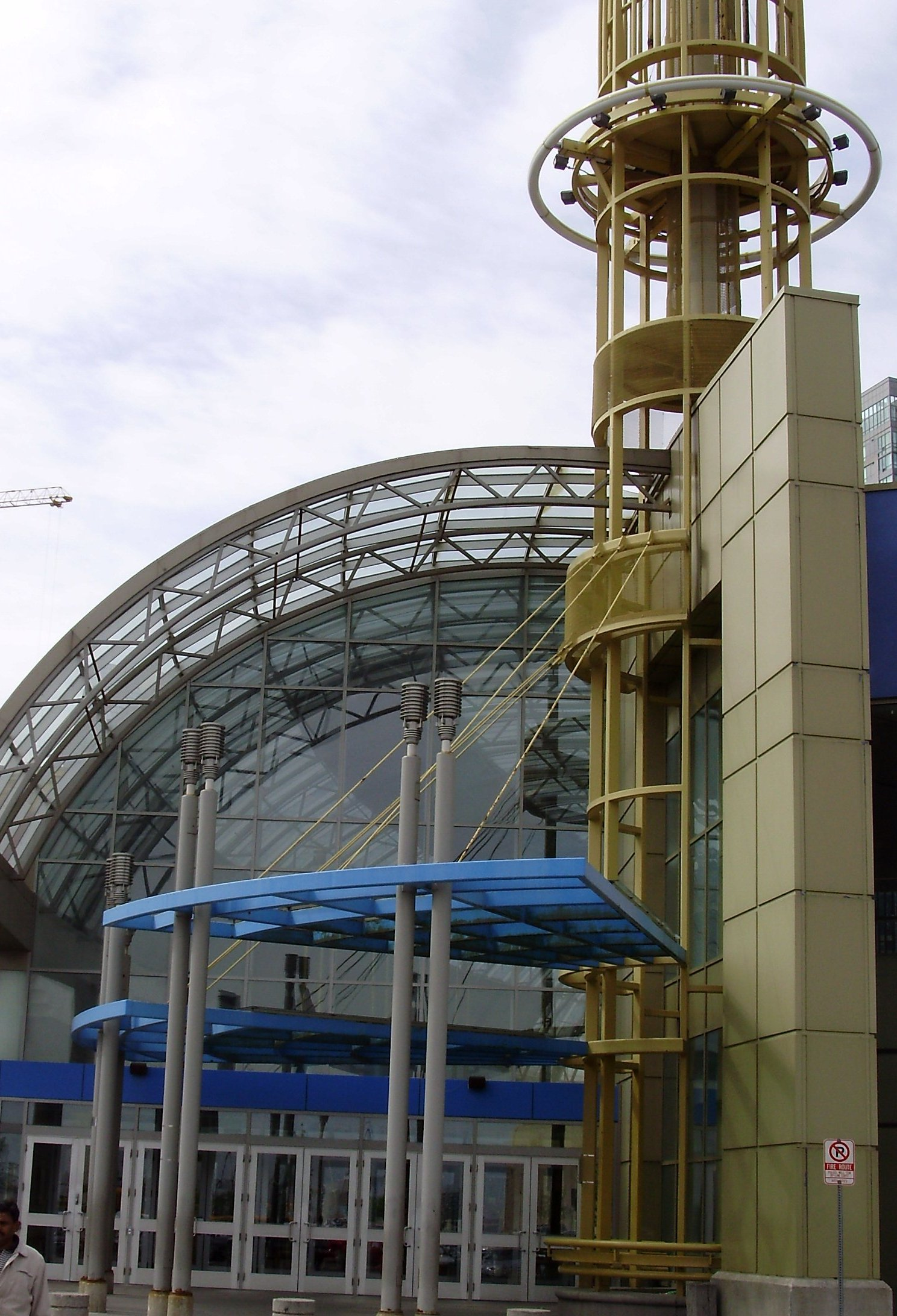 Pedestrian entrance #1 to the Scarborough Town Centre shopping mall in Scarborough, Canada.